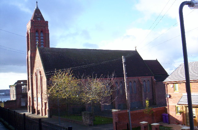 St Gabriel's Church, Toxteth. Architect H & AP Fry, 1884. River Mersey behind.